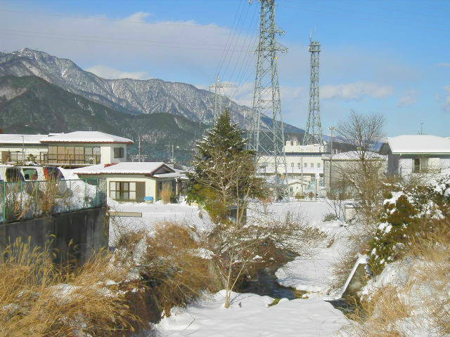 Mobori River. Fujiyoshida, Yamanashi prefecture, Japan.